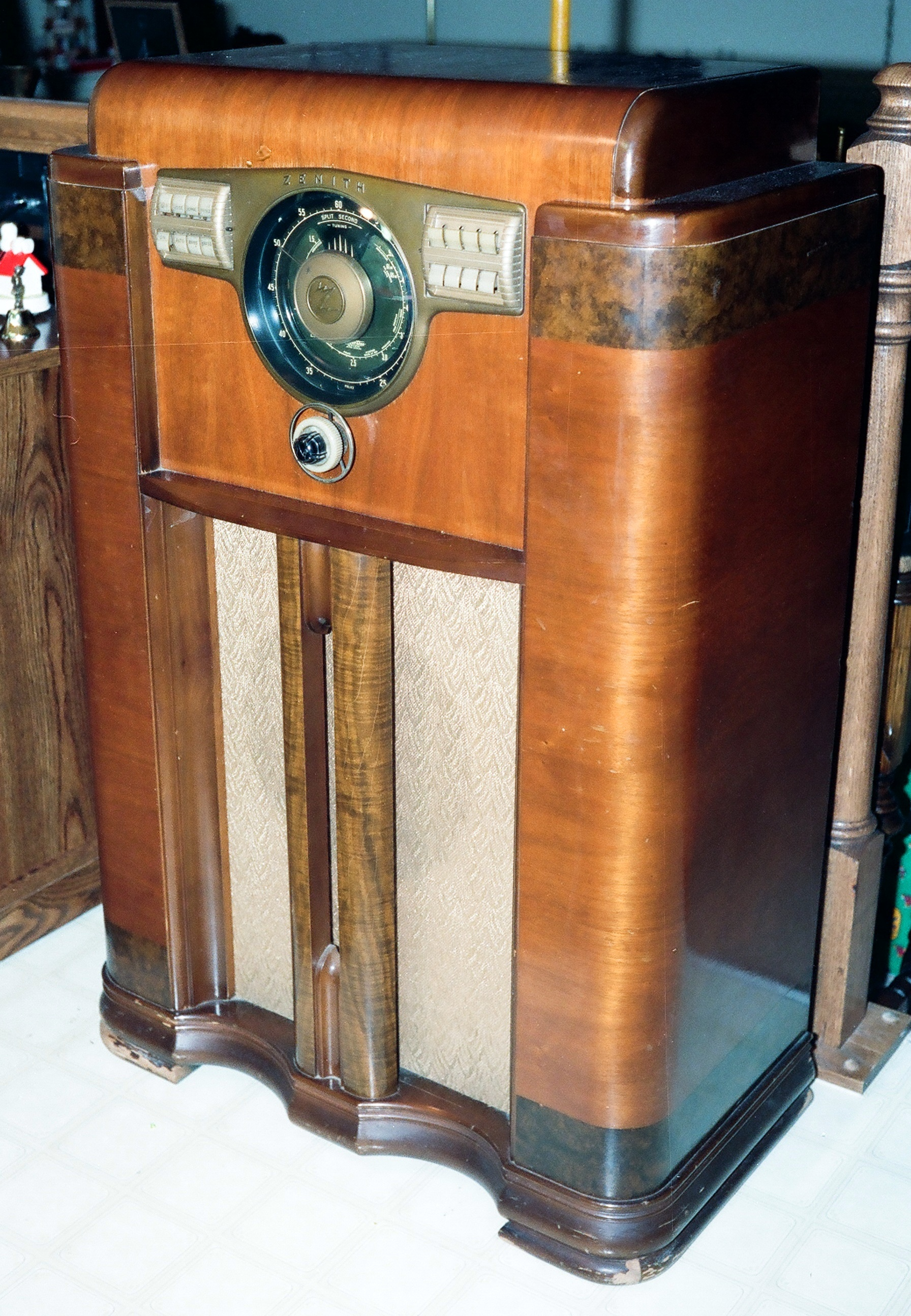 Vintage Zenith Console Radio, Model 12S-568, With the Zenith Robot (or Shutter) Dial, Circa 1941. It is a 12 tube superheterodyne, with pushbutton tuning and a 12 inch cone speaker.